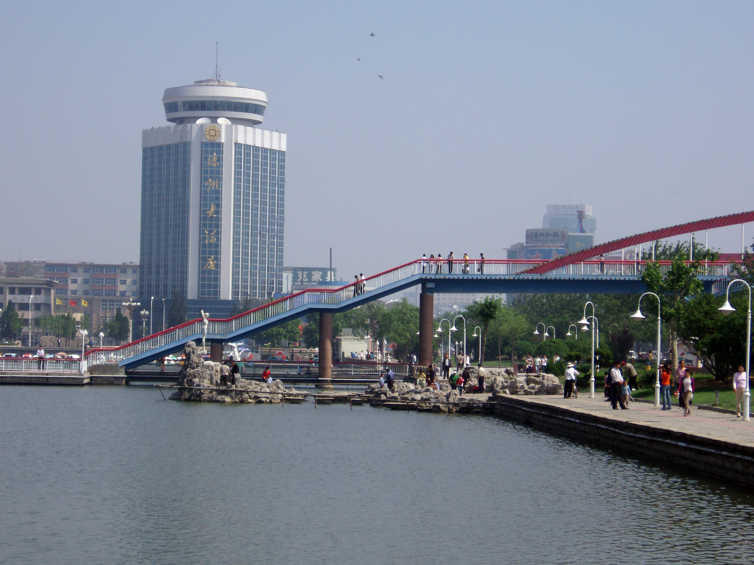 Dezhou, Shandong, China